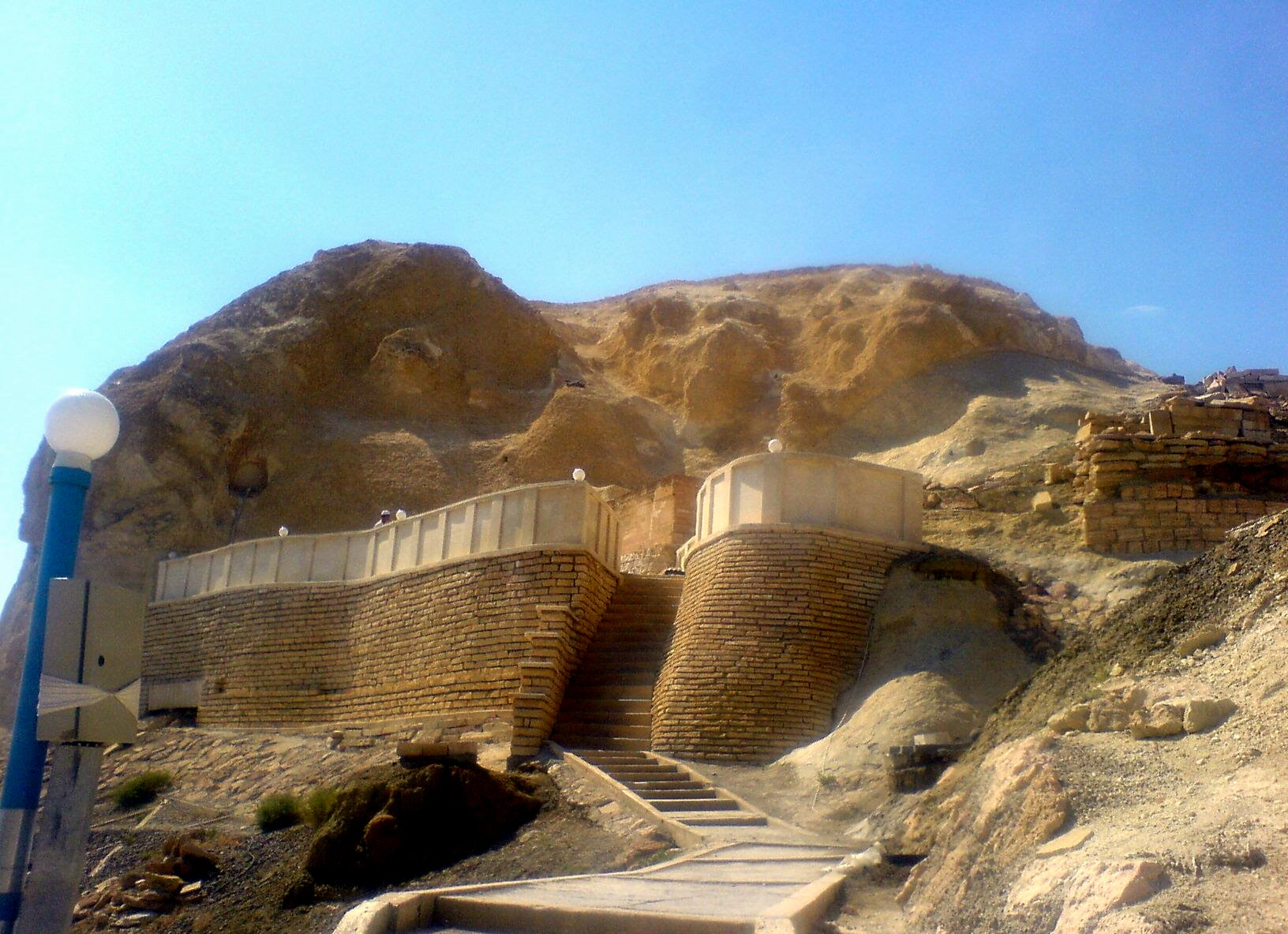 Underground mosque